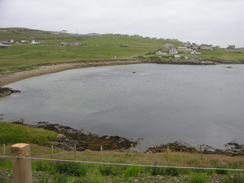 North Voe, Whalsay